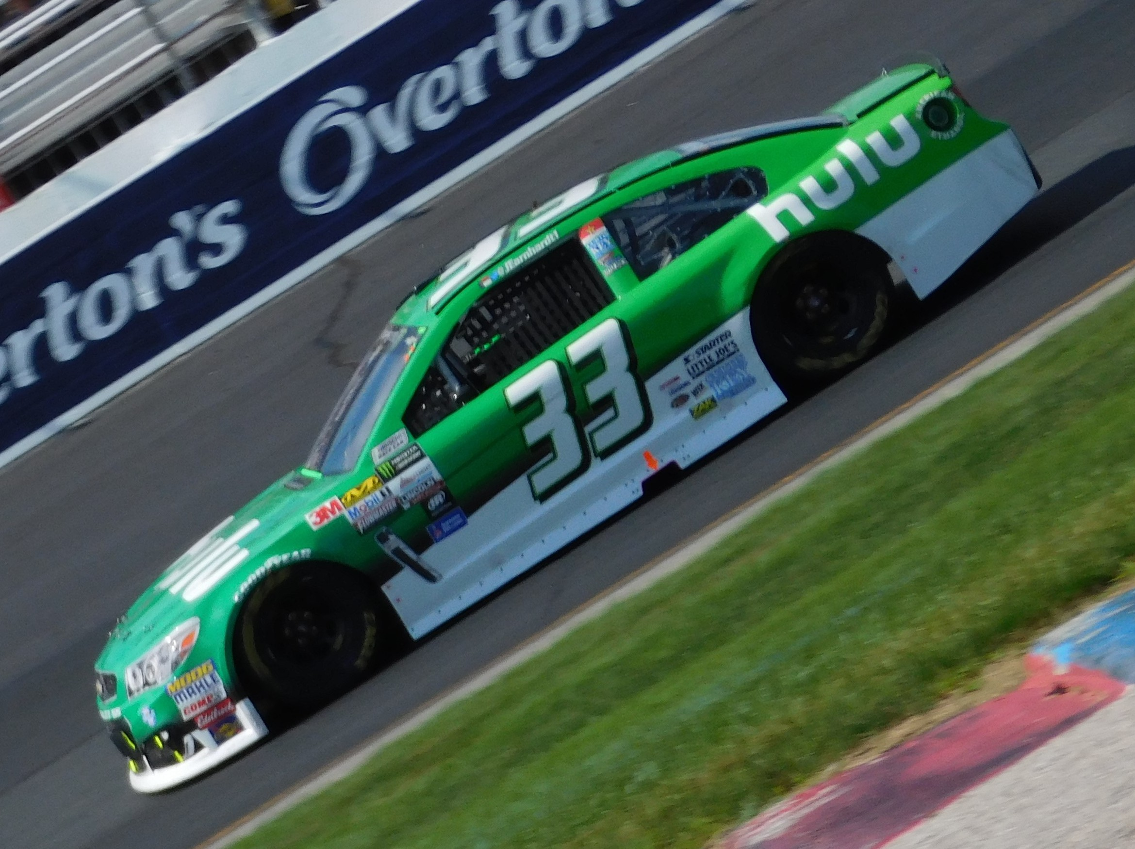 Jeffrey Earnhardt's No. 33 Hulu Chevrolet at New Hampshire Motor Speedway in 2017